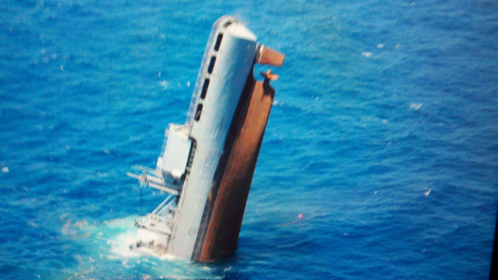 PACIFIC OCEAN (July 14, 2012) The ex-USS Niagara Falls (T-AFS-3) sinks during a ive fire exercise during Rim of the Pacific (RIMPAC) 2012. the deactivated ship sank in waters 15,480 feet deep, 63 nautical miles southwest of Kauai at approximately 11:30 a.m. A sink exercise (SINKEX) benefits the U.S. Navy and participating allies and partners by providing crews the opportunity to gain proficiency in tactics, targeting and live firing against surface targets, which enhances combat readiness of deployable units.